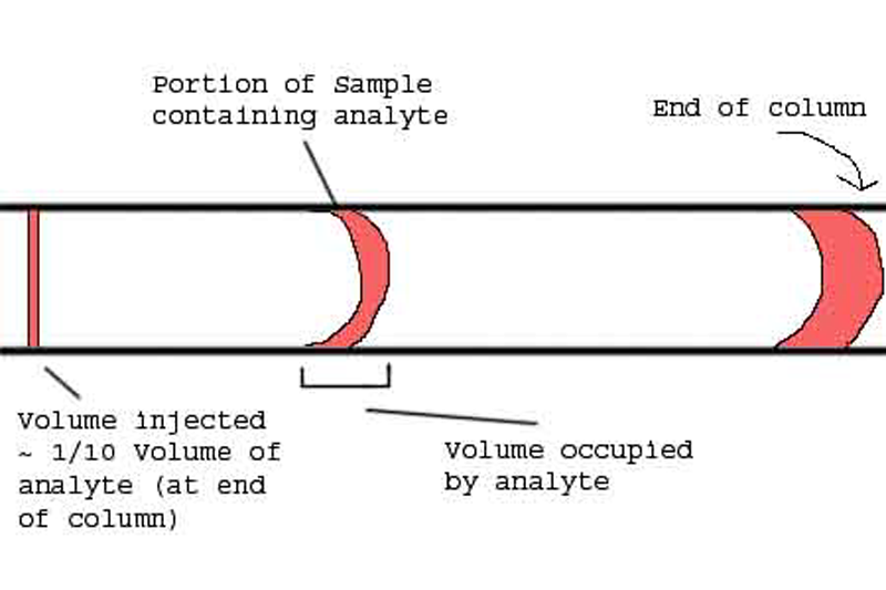 GC rule of 1/10, photoshop drawing